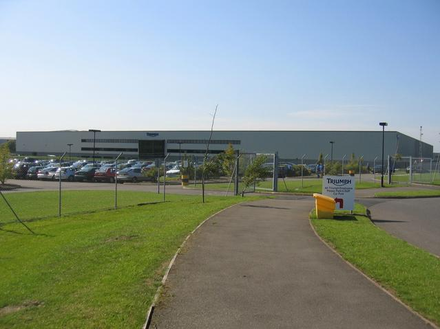 Triumph Motorcycle works. The famed motorbike name lives on!